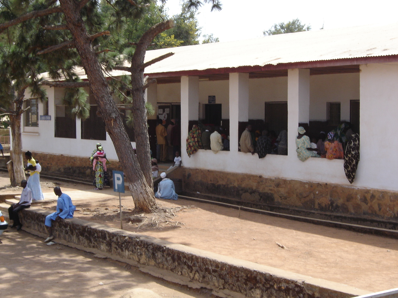 Paedriatric hospital in N'Gaoundere, Cameroon.